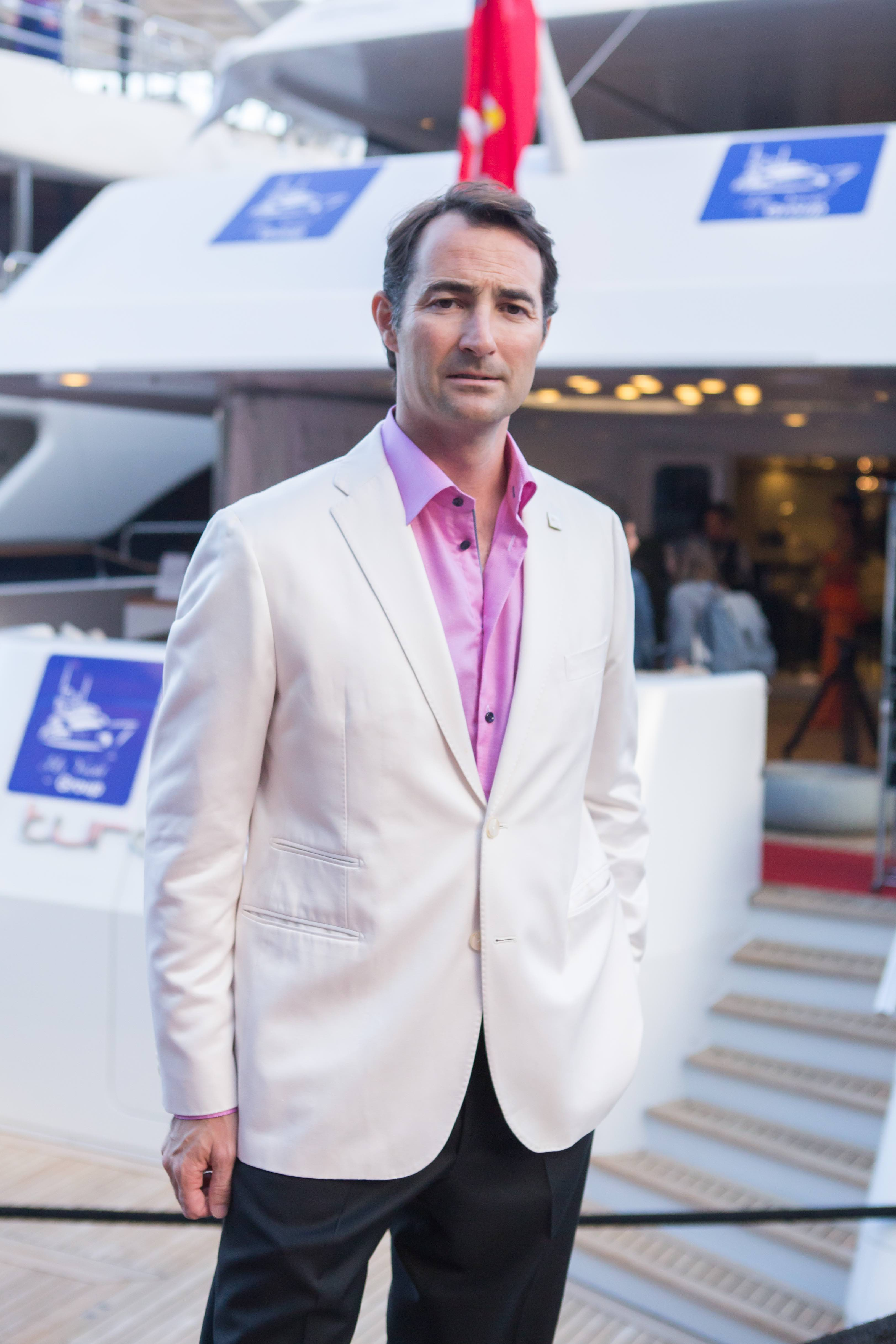 Nicholas Frankl in front of M/Y Turquoise on the evening of the "2014 My Yacht Group" charity reception during the Monaco Grand Prix, Port Hercules, Monaco